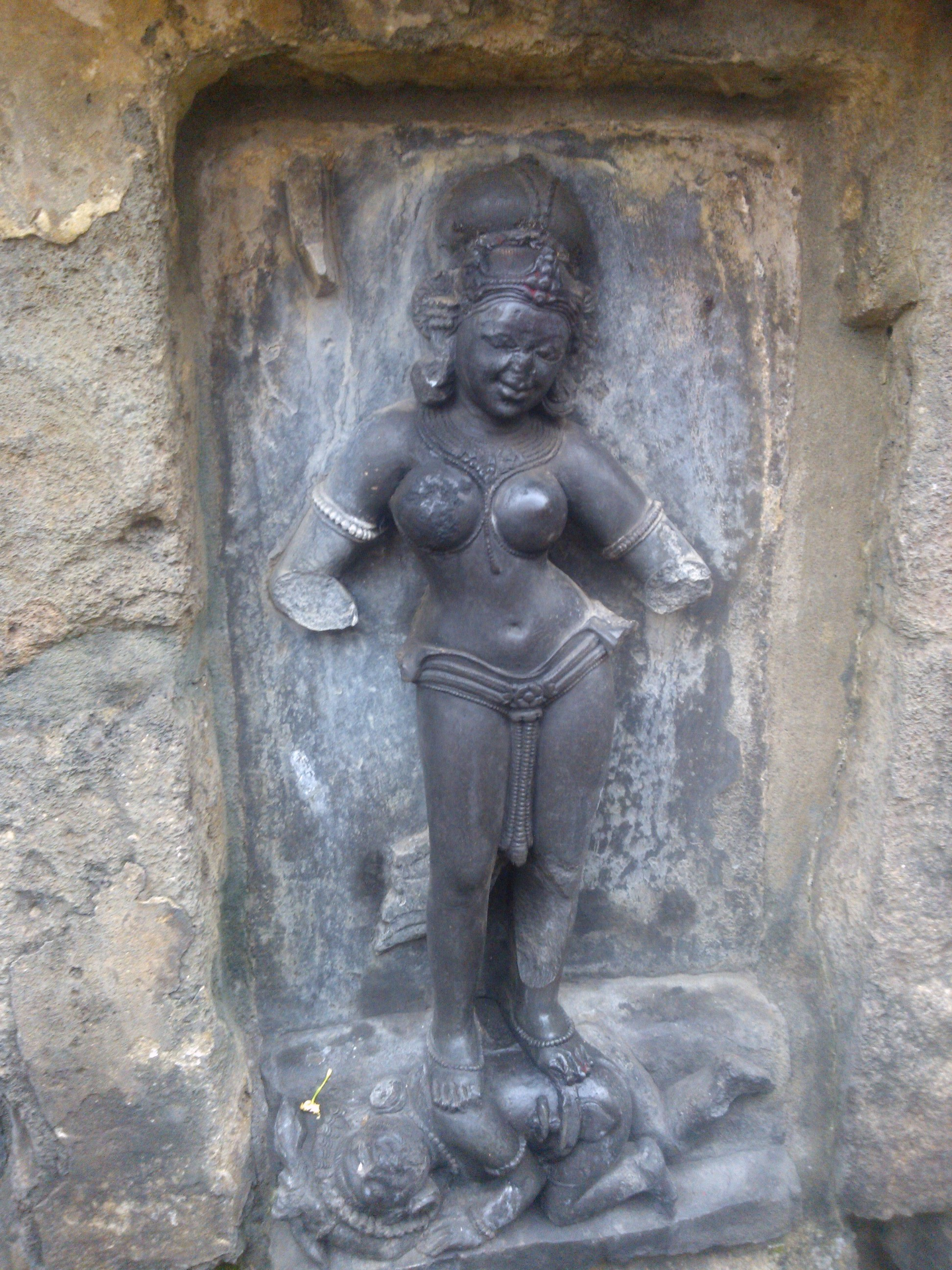 One of the Yogini of Chausathi Yogini Temple at Hirapur, Odisha